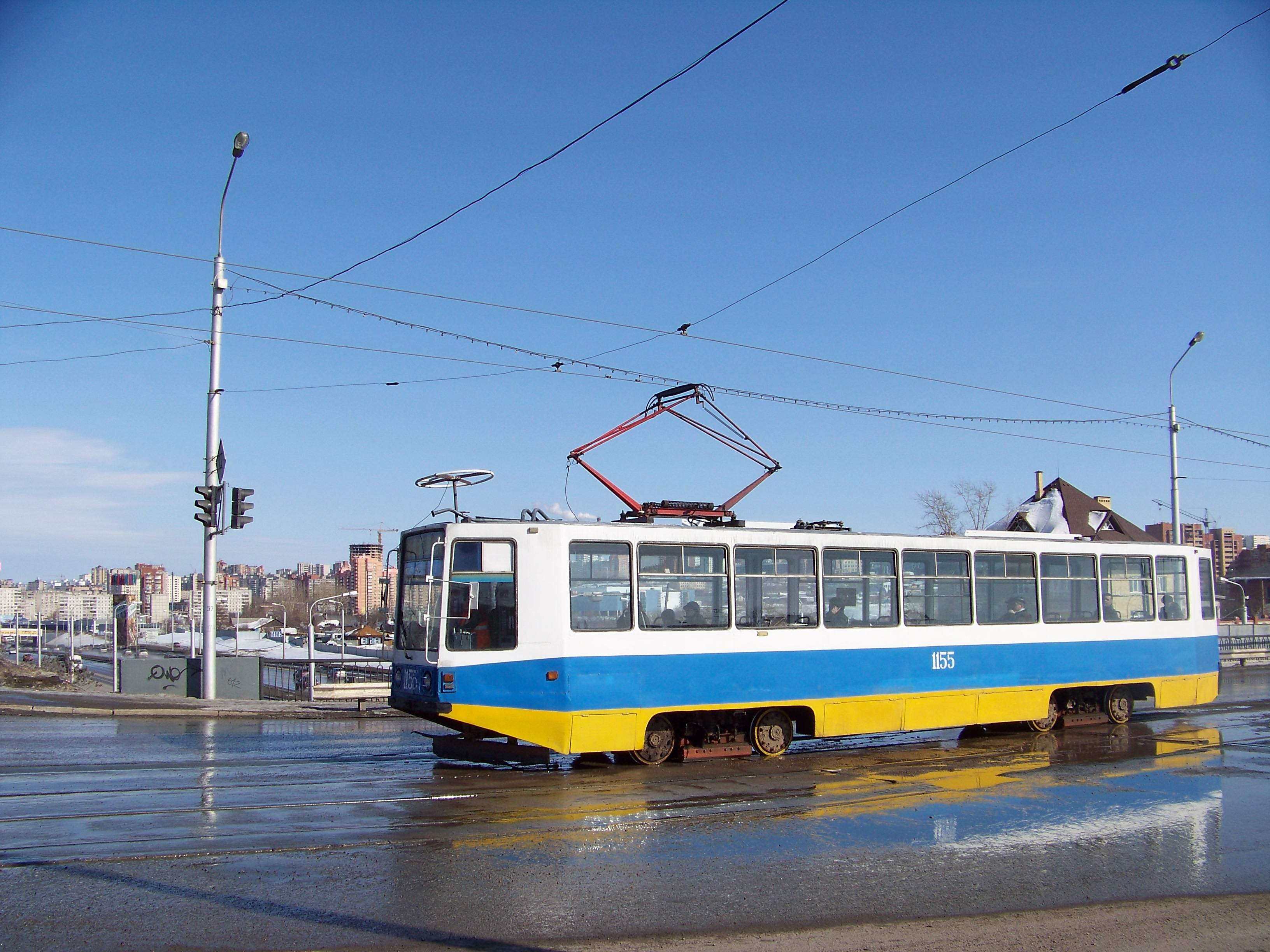 71-608K tram in Ufa, Russia